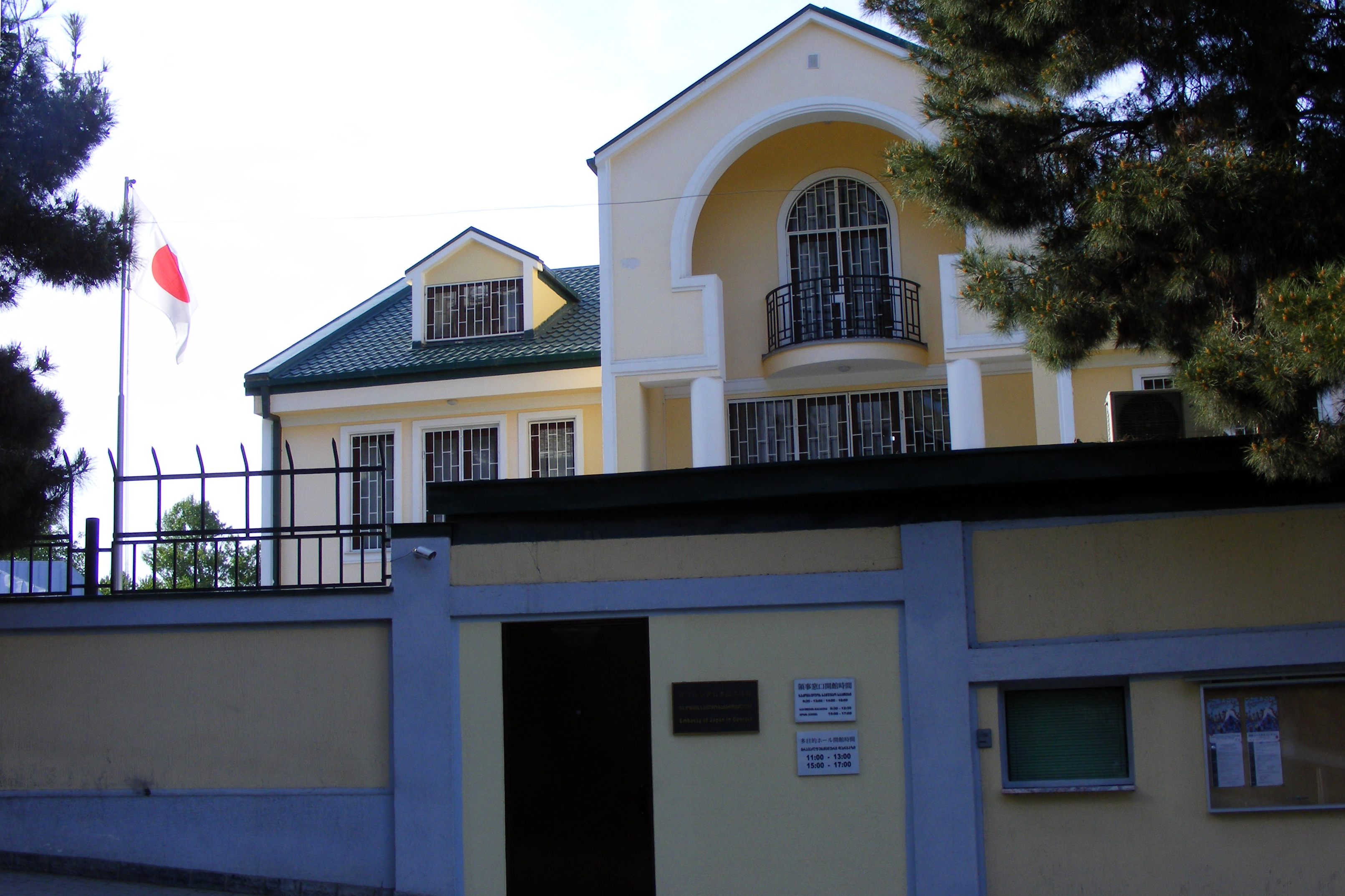 Embassy of Japan in Georgia. Located in Tbilisi City, Krtsanisi st. 7D